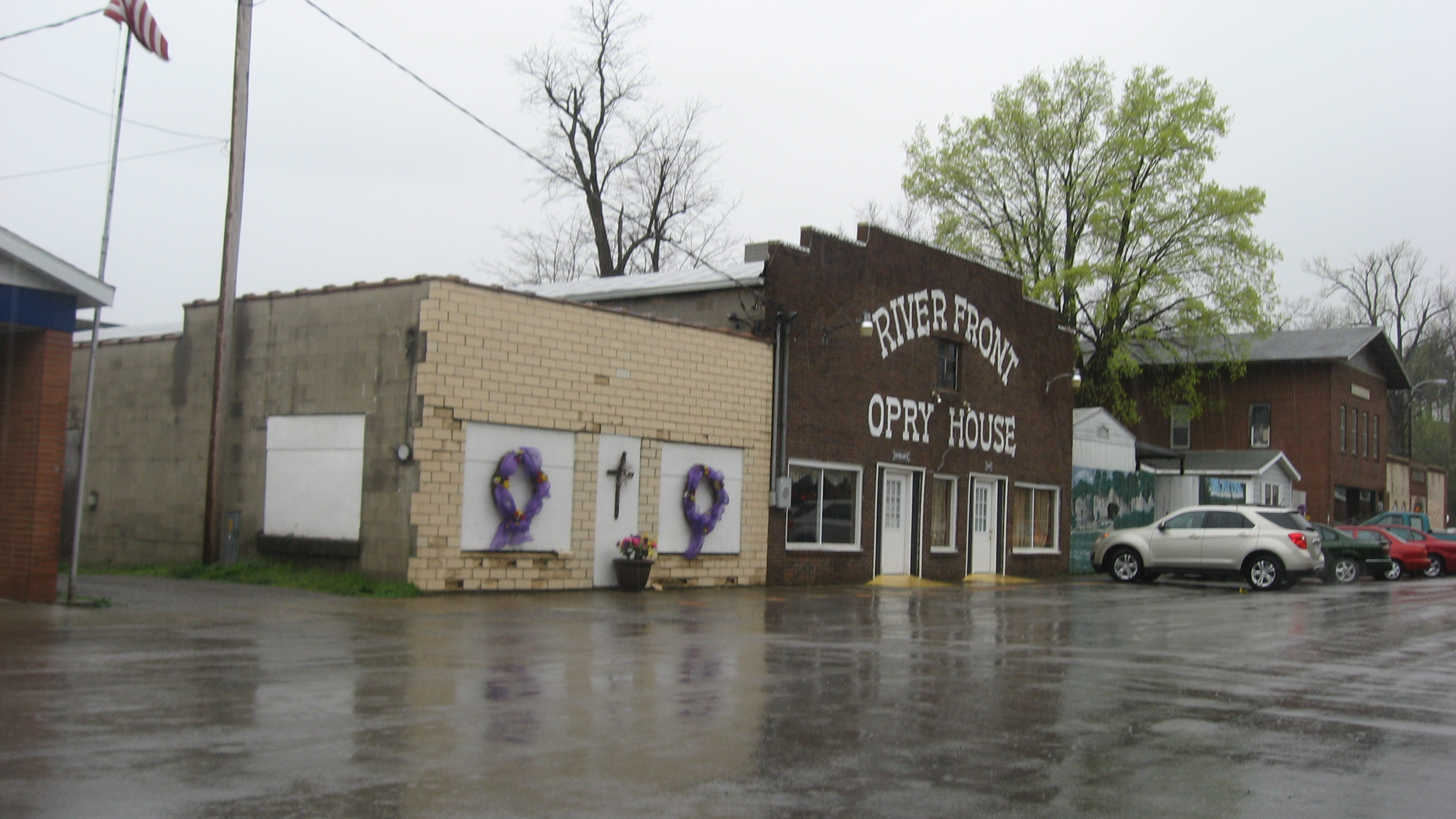 Southern side of Main Street just east of the Canal Street intersection in central Cave-In-Rock, Illinois, United States.